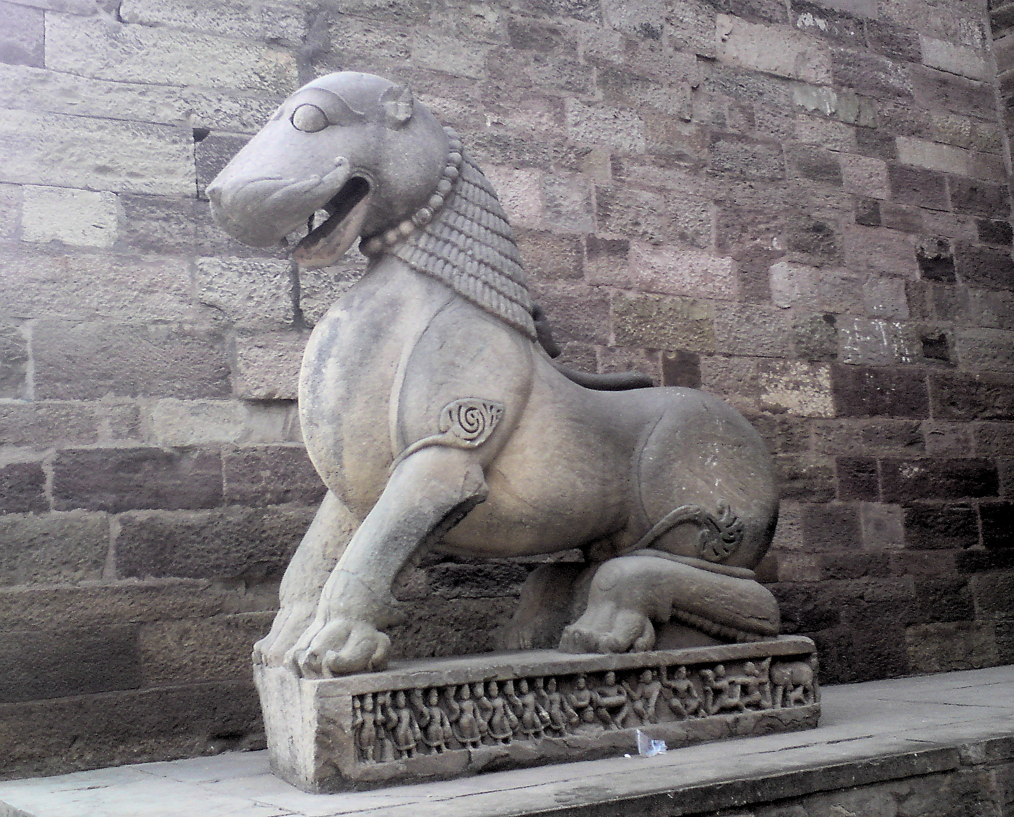 One of the two mythological statue guarding Gujari Mahal. The palace itself has been converted into a museum.